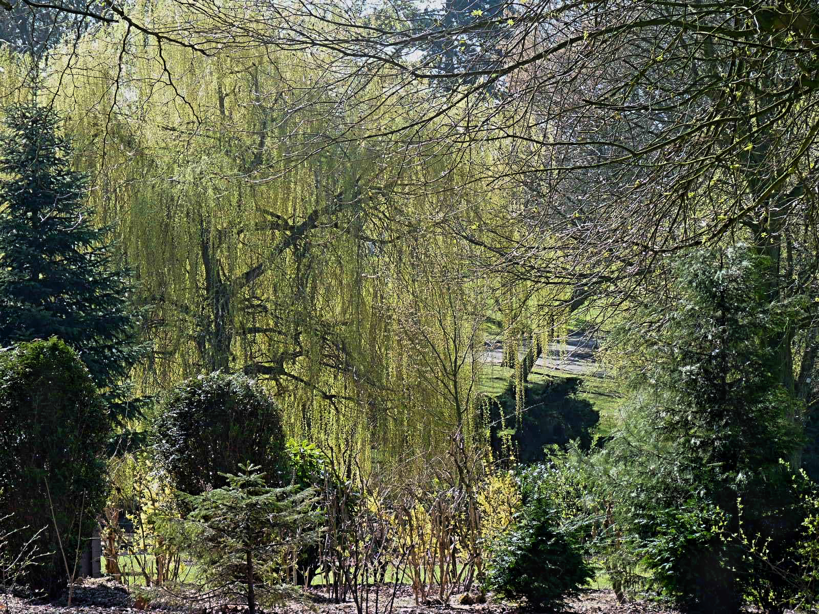 Municipal park of Mouscron (Belgium) in spring